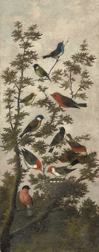 Songbirds in a tree. Signed and dated M. Meucci 1892/Firenze (lower left); oil on canvas; 9½ x 15½ in.